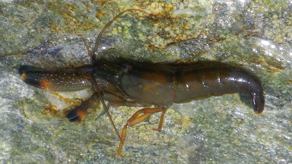 Betaeus granulimanus Yokoya, 1927. at Nagasaki.